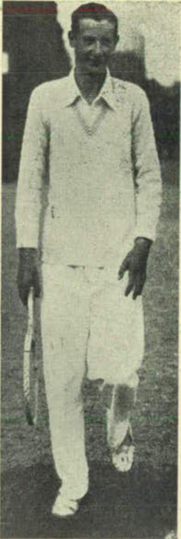 Photo of Harry Ramberg in Stockholm in 1929